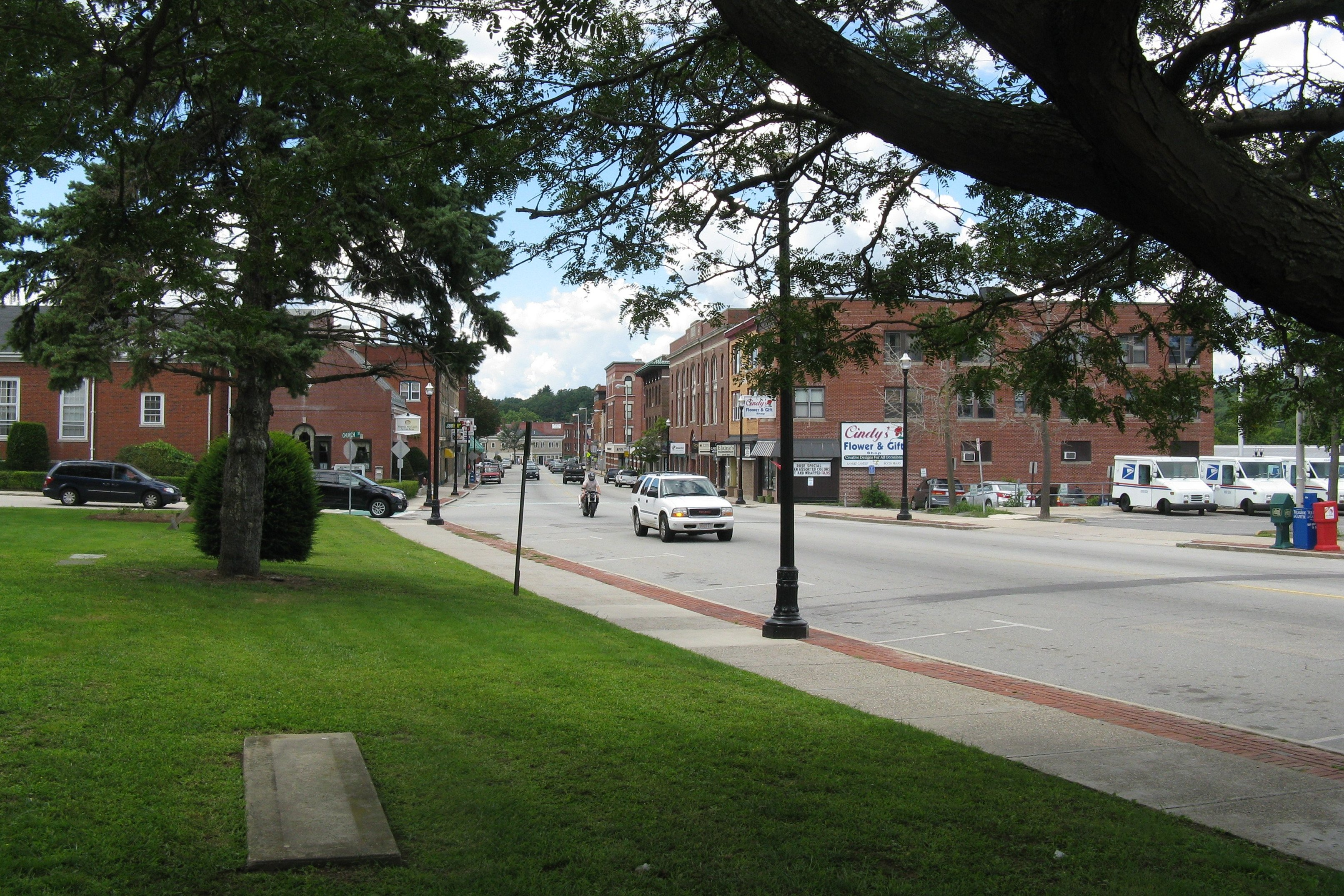 Main Street looking west, Webster Massachusetts